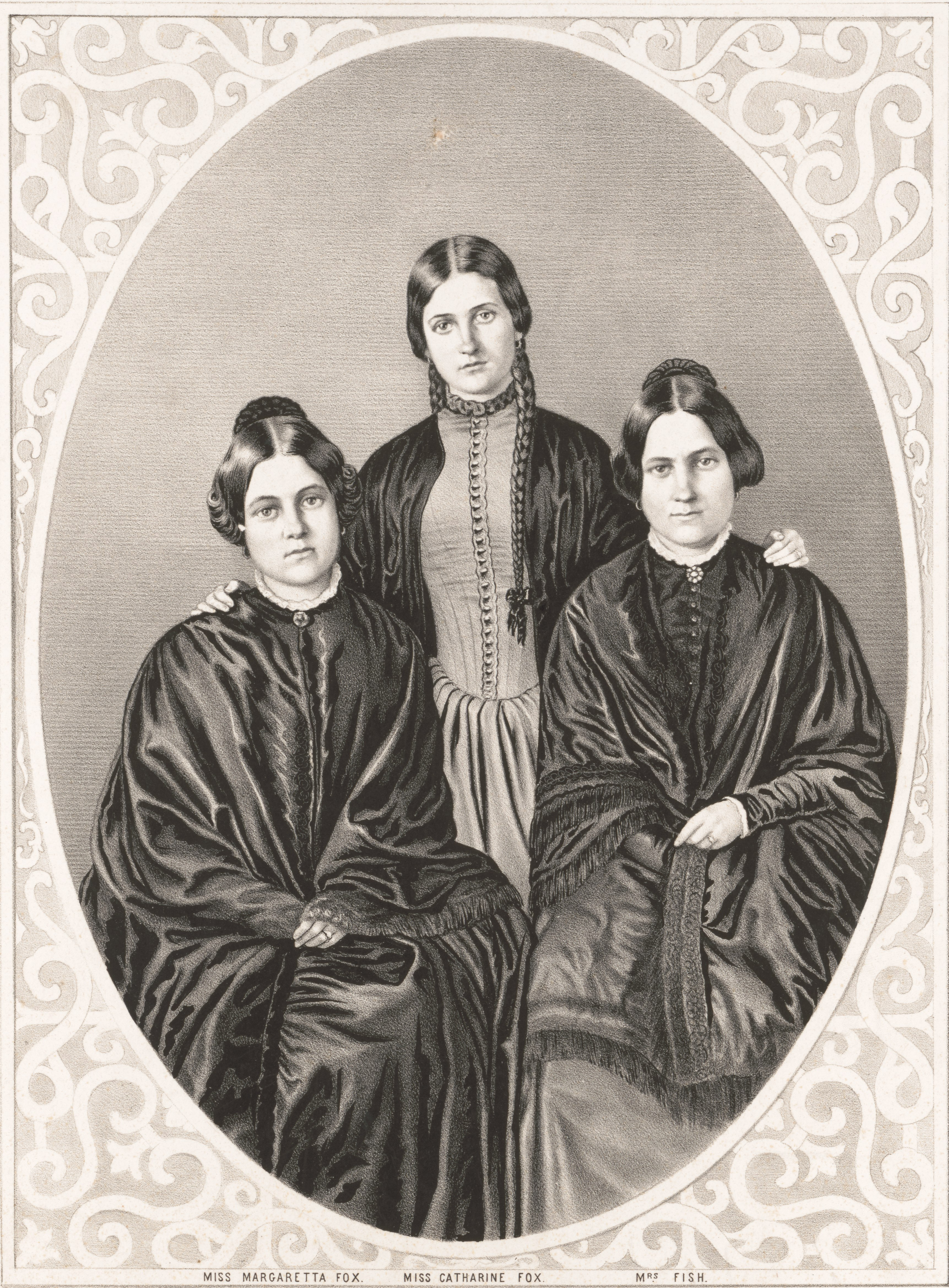 Title: "Mrs. Fish and the Misses Fox: The Original Mediums of the Mysterious Noises at Rochester Western, N.Y." The Fox sisters (from left to right: Margaret, Catherine, and Leah), were a trio of spiritualists in the mid 19th-century. Lithograph after a daguerreotype by Appleby, Rochester, NY